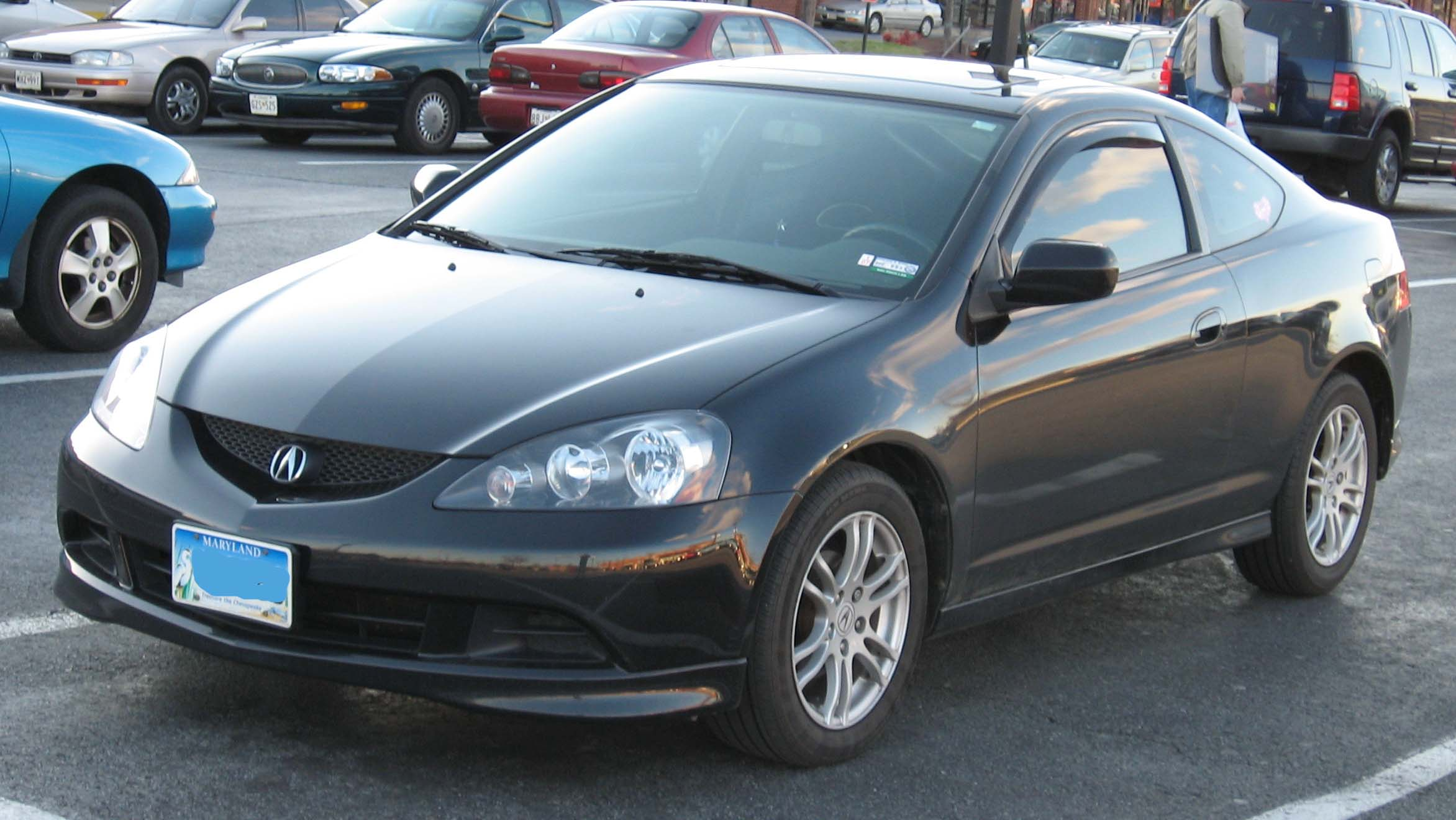 2005-2006 Acura RSX photographed in USA.